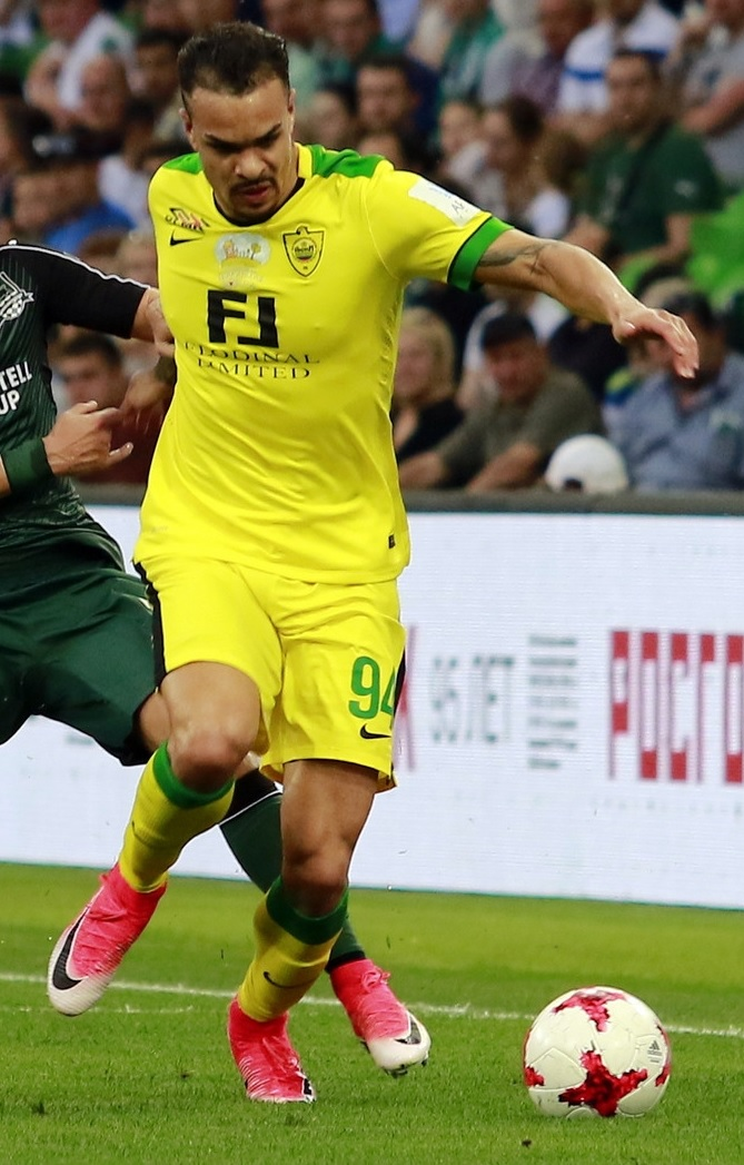 Felicio Brown Forbes playing for FC Anzhi Makhachkala in a game against FC Krasnodar.